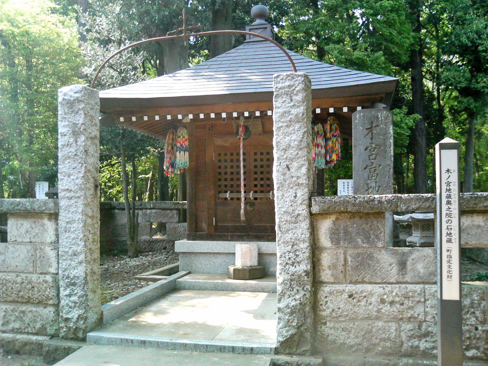 Kinomiya Jizō-dō Okuno'in , - near Tafuku-ji temple, in Miyoshi-machi, Saitama, Japan.